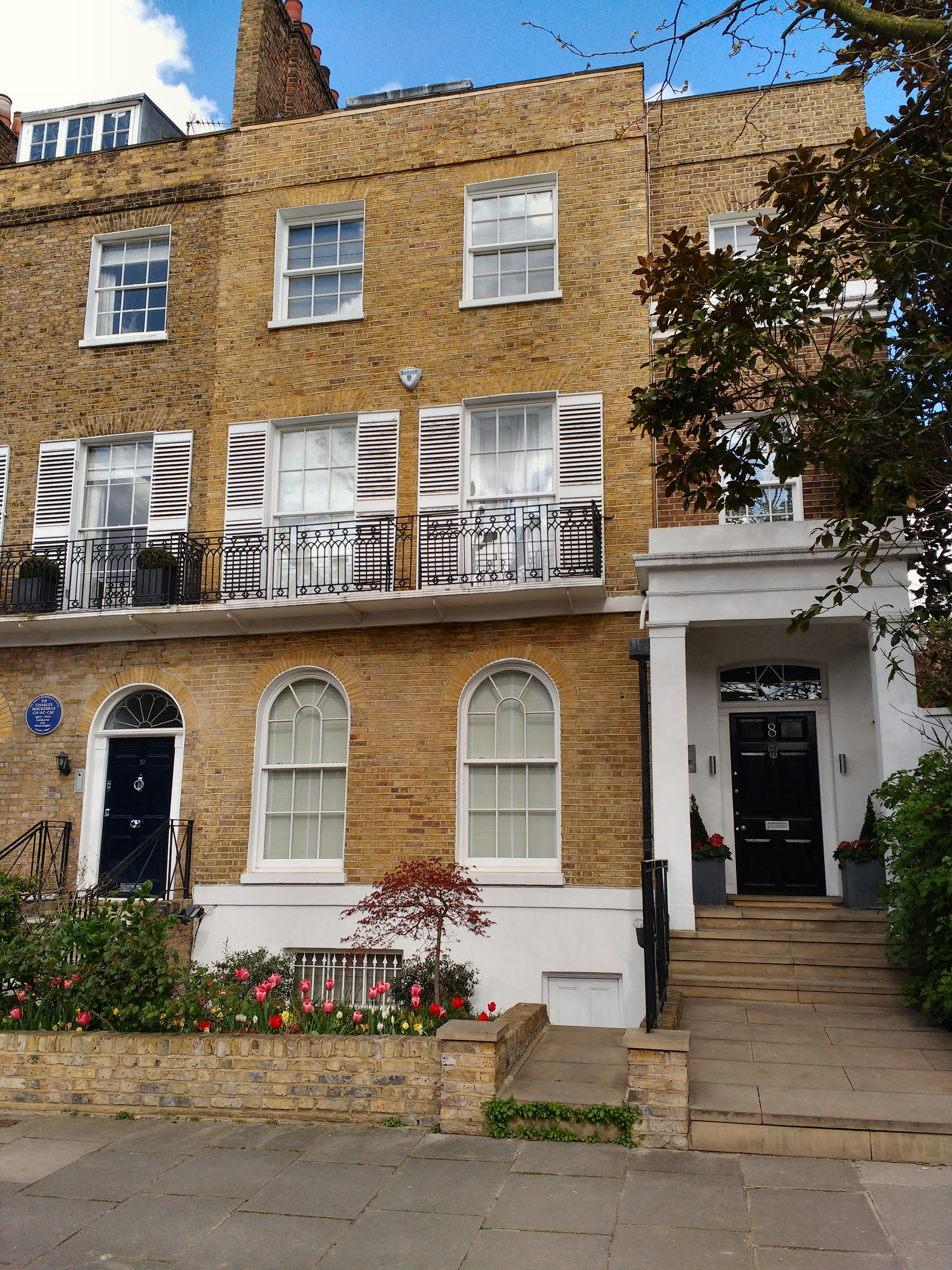 8 Hamilton Terrace NW8 9UG. Originally no 1 before renumbering. Home of Norman Shanks Kerr from about 1896 to 1899